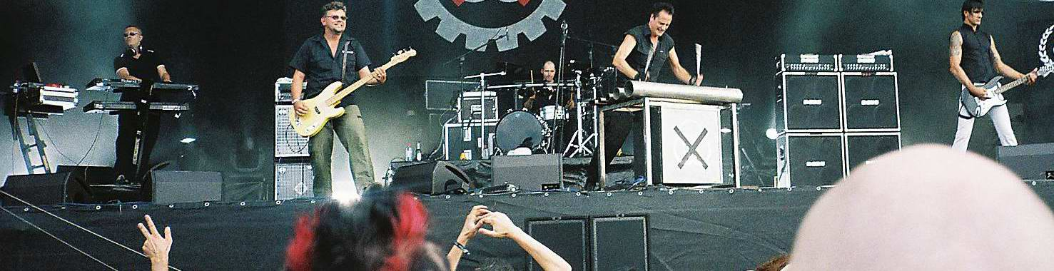 A concert of the german band DIE KRUPPS at the MERA LUNA 2006 festival